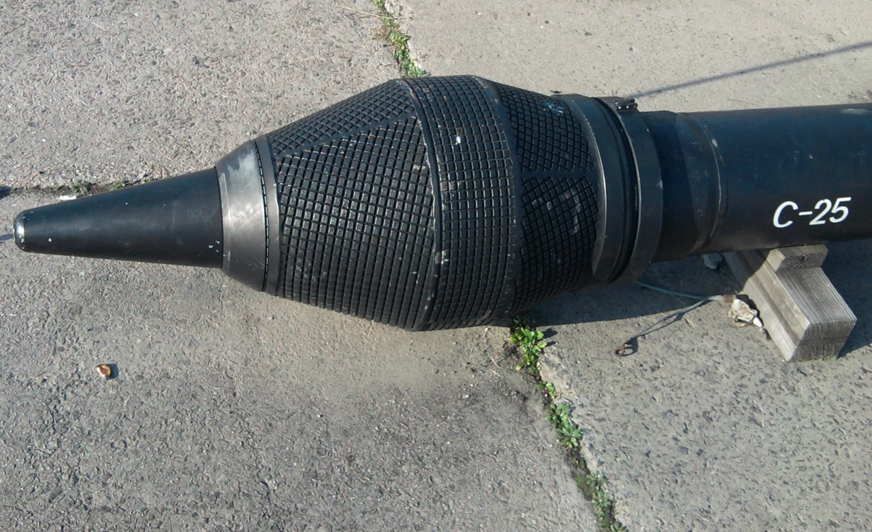 Fragmentation warhead S-25 NAR